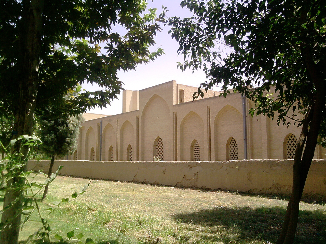 Exterior courtyard of Jameh Mosque complex in Varamin